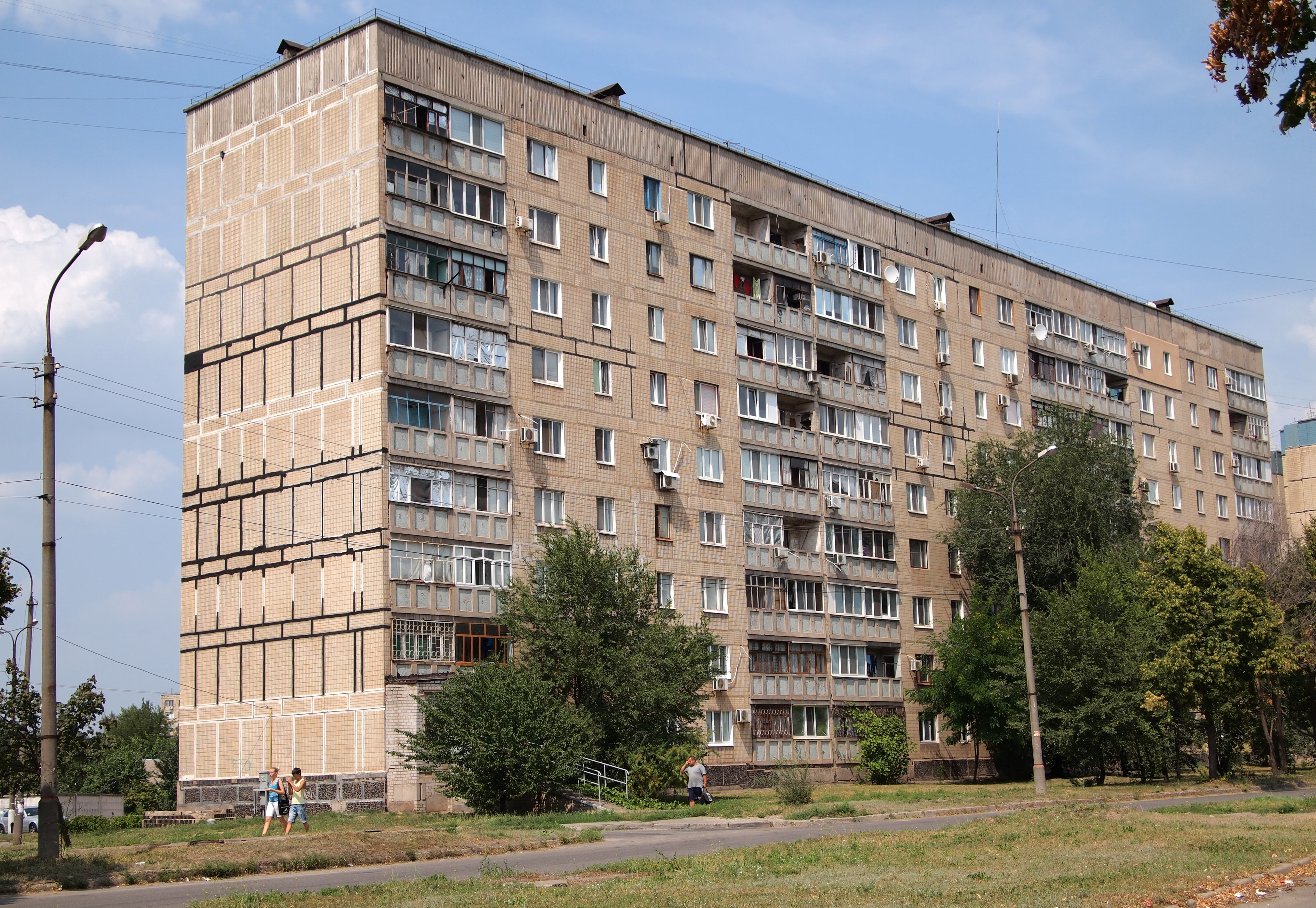 Apartment building in Kryvyi Rih. This photograph was taken with an Olympus E-PL1